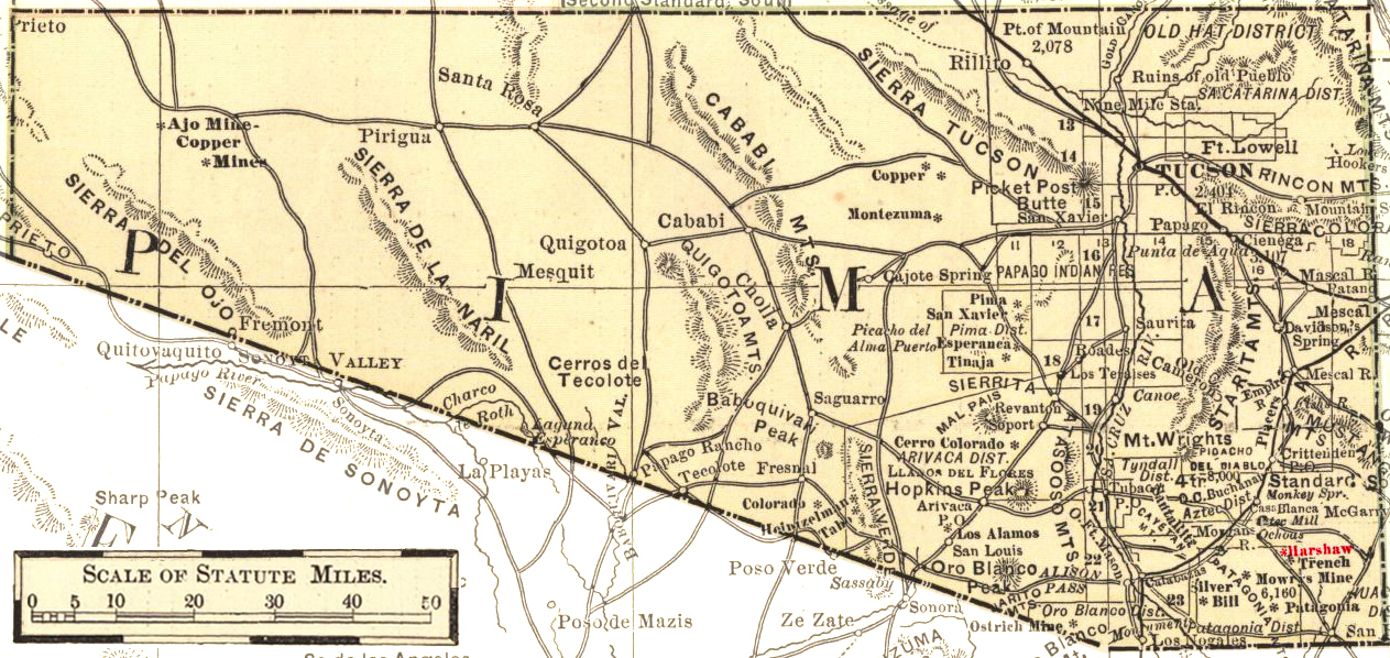 Map of Pima County, Arizonia, Harshaw highlighted, 1883.